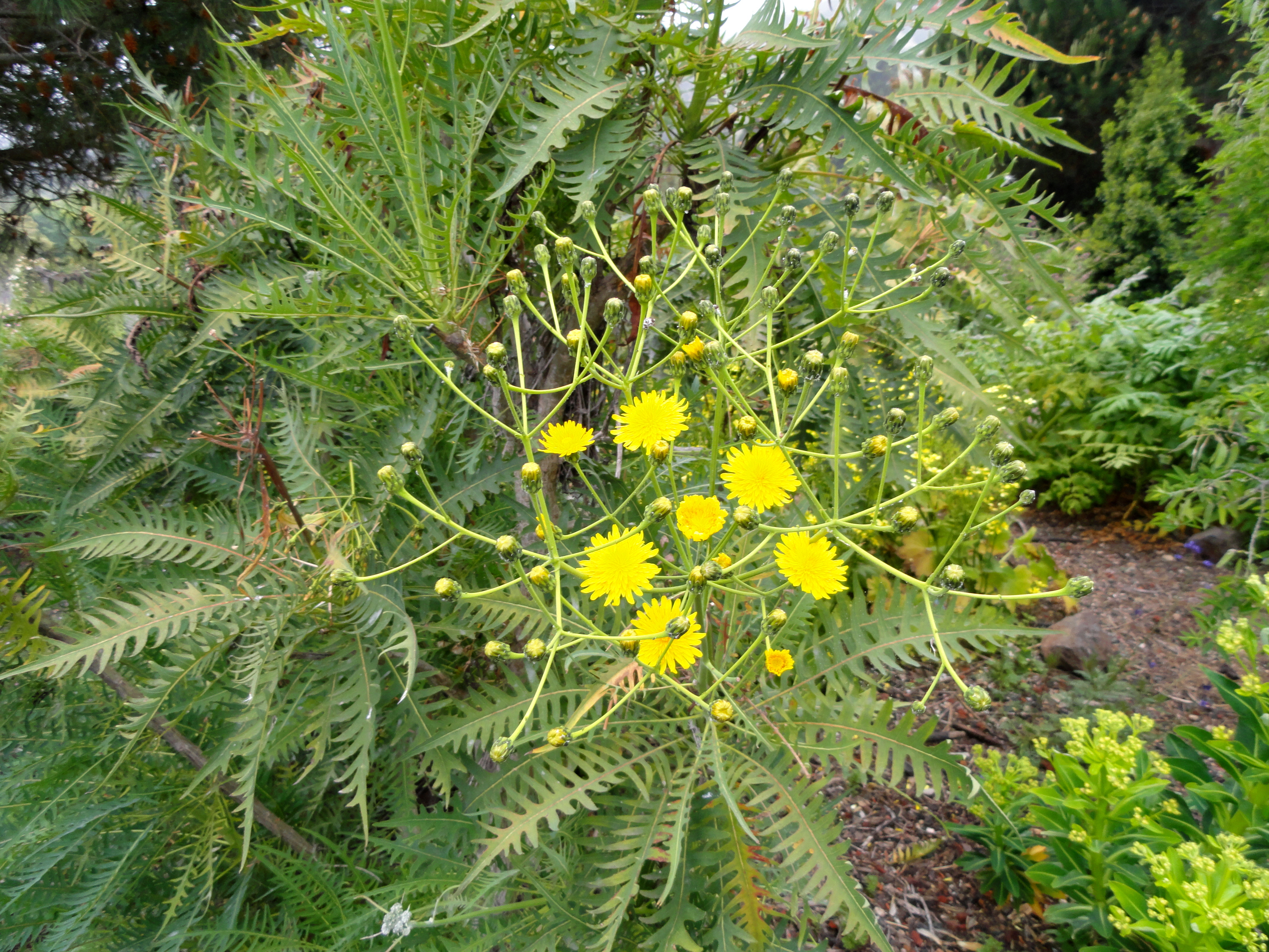 Sonchus canariensis specimen in the University of California Botanical Garden, Berkeley, California, USA.